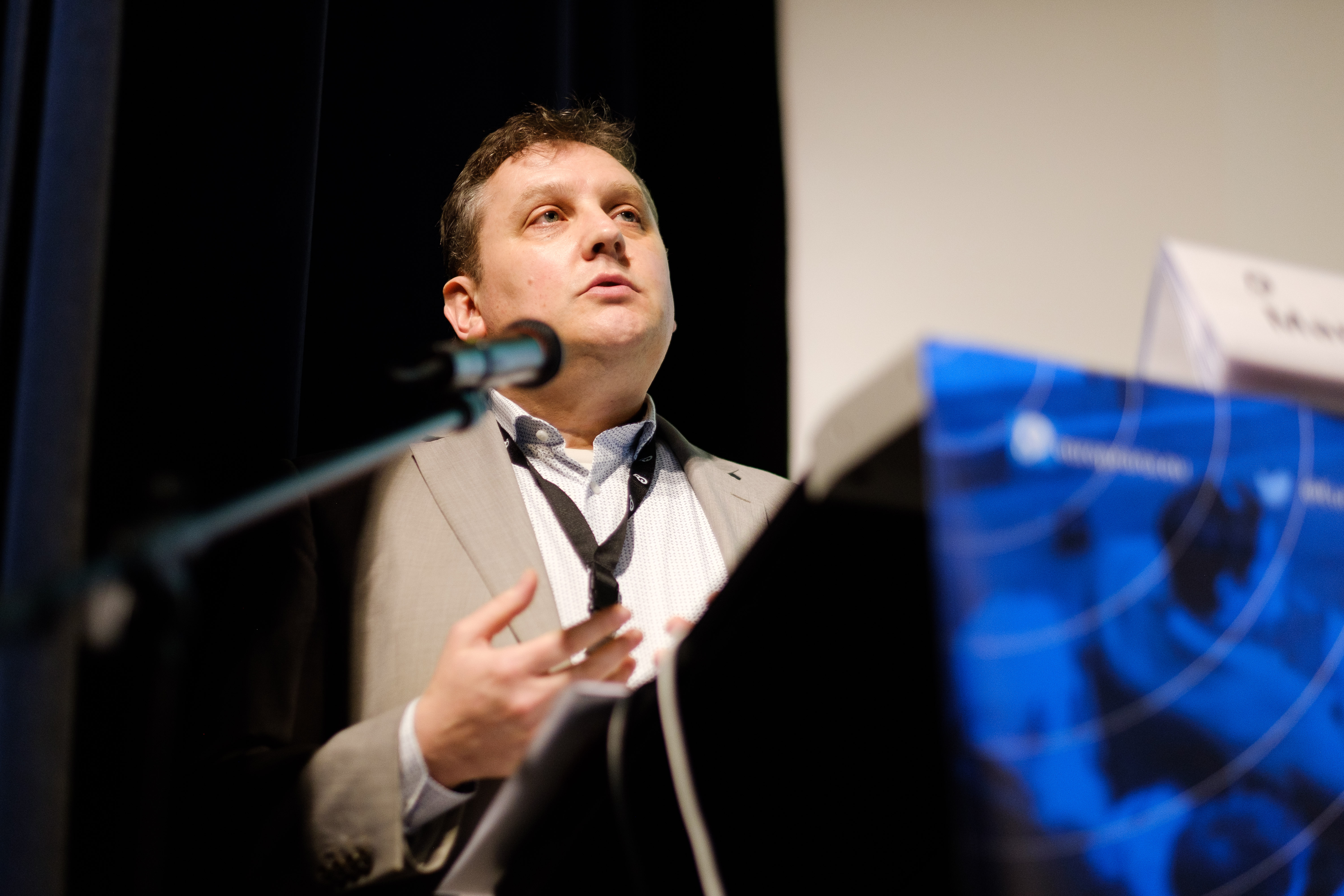 Over 250 thought-leaders from over 37 countries gathered in the National Library of Lisbon to discuss the issues that shape the future of digital cultural heritage during the Europeana 2019 conference. The theme of the conference was “Connect communities”. It was an unique interdisciplinary event bringing together communities from tech, communications, impact, research, education and copyright. For more information, see